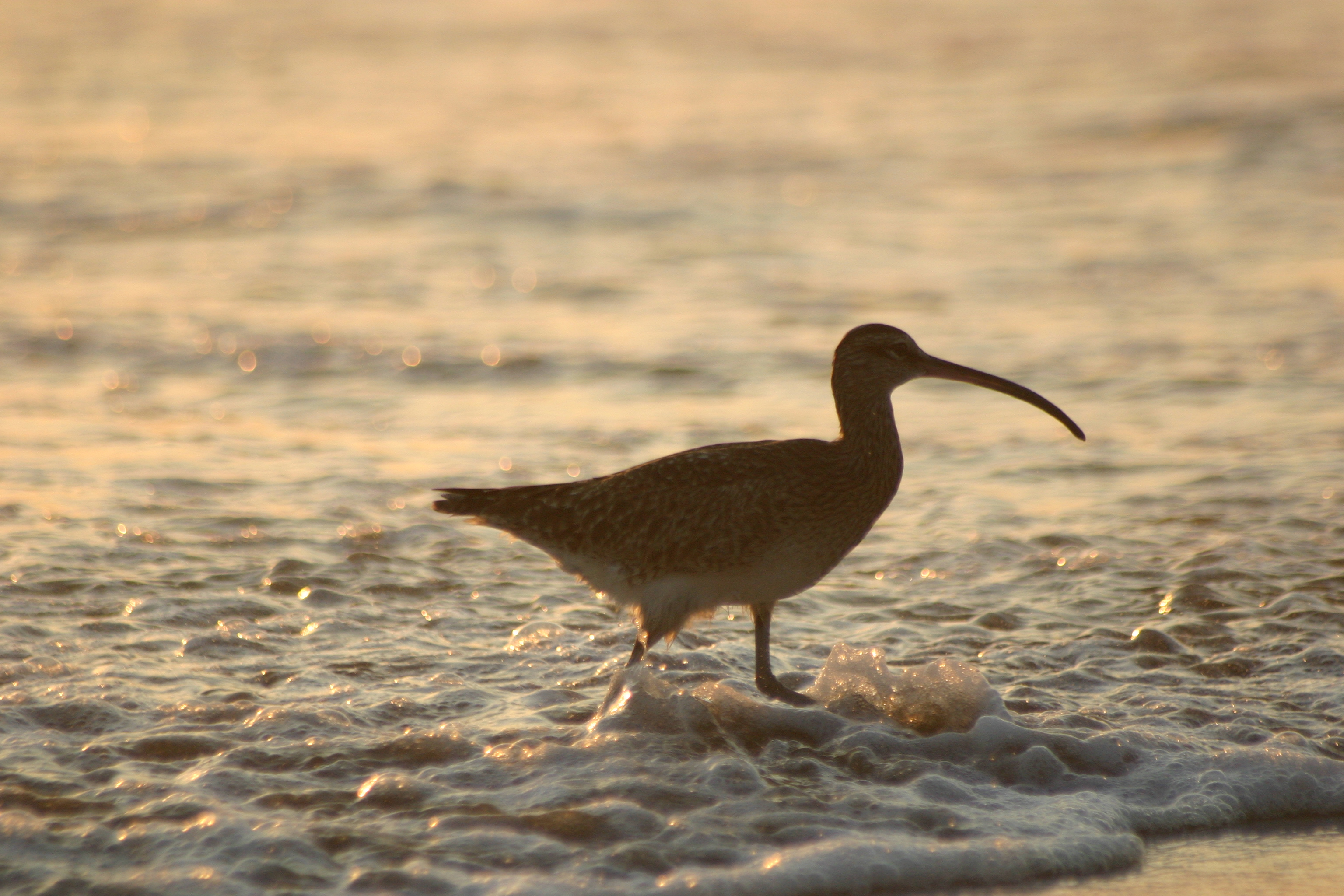 A Whimbrel (Numenius phaeopus hudsonicus) running along the shore in Acapulco